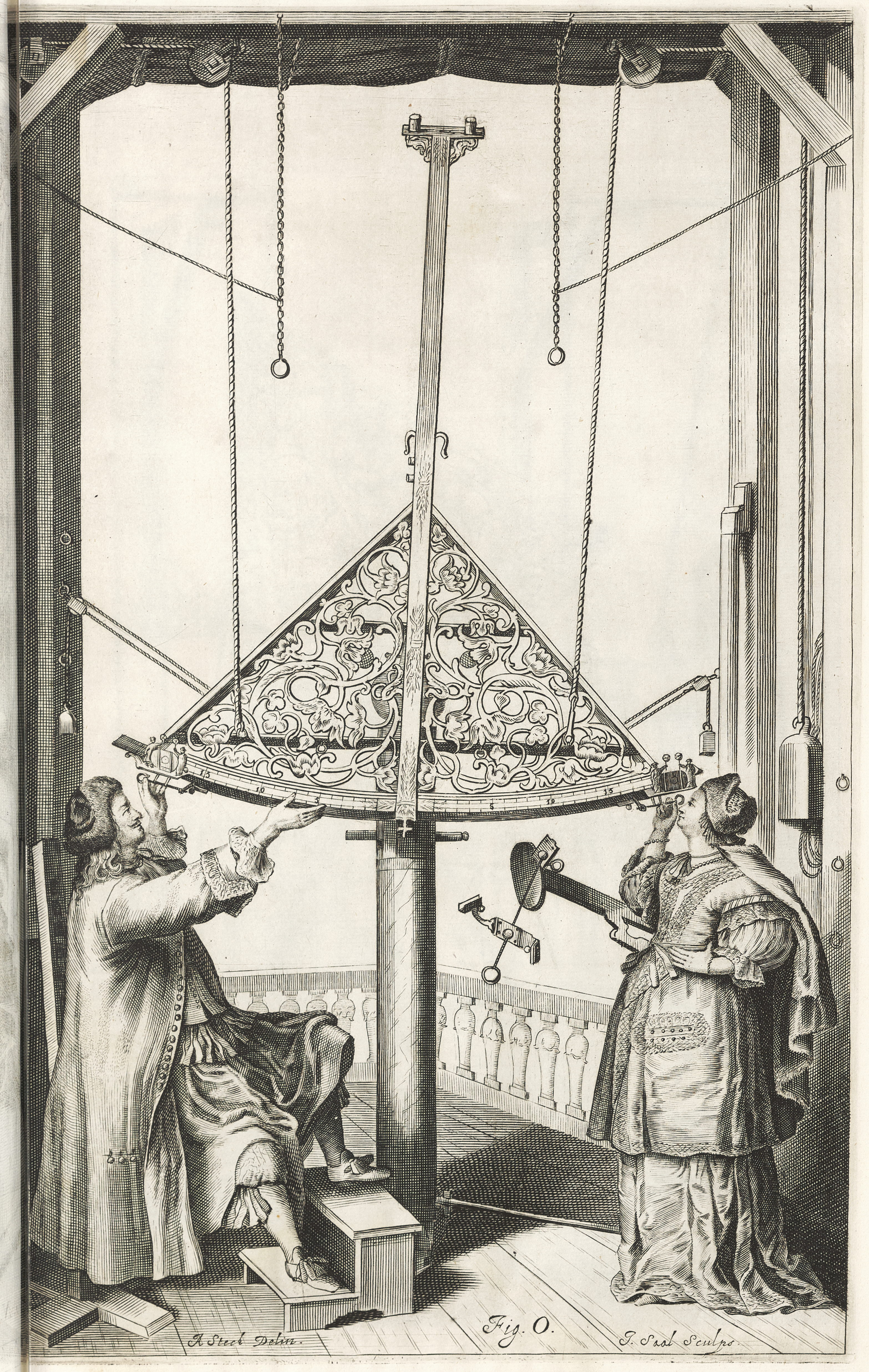 Johannes Hevelius and wife Elisabetha observing the sky with a brass octant. Engraving from Johannes Hevelius's "Machinae Coelestis: Pars Prior", (1673), fig. O, facing p. 254.